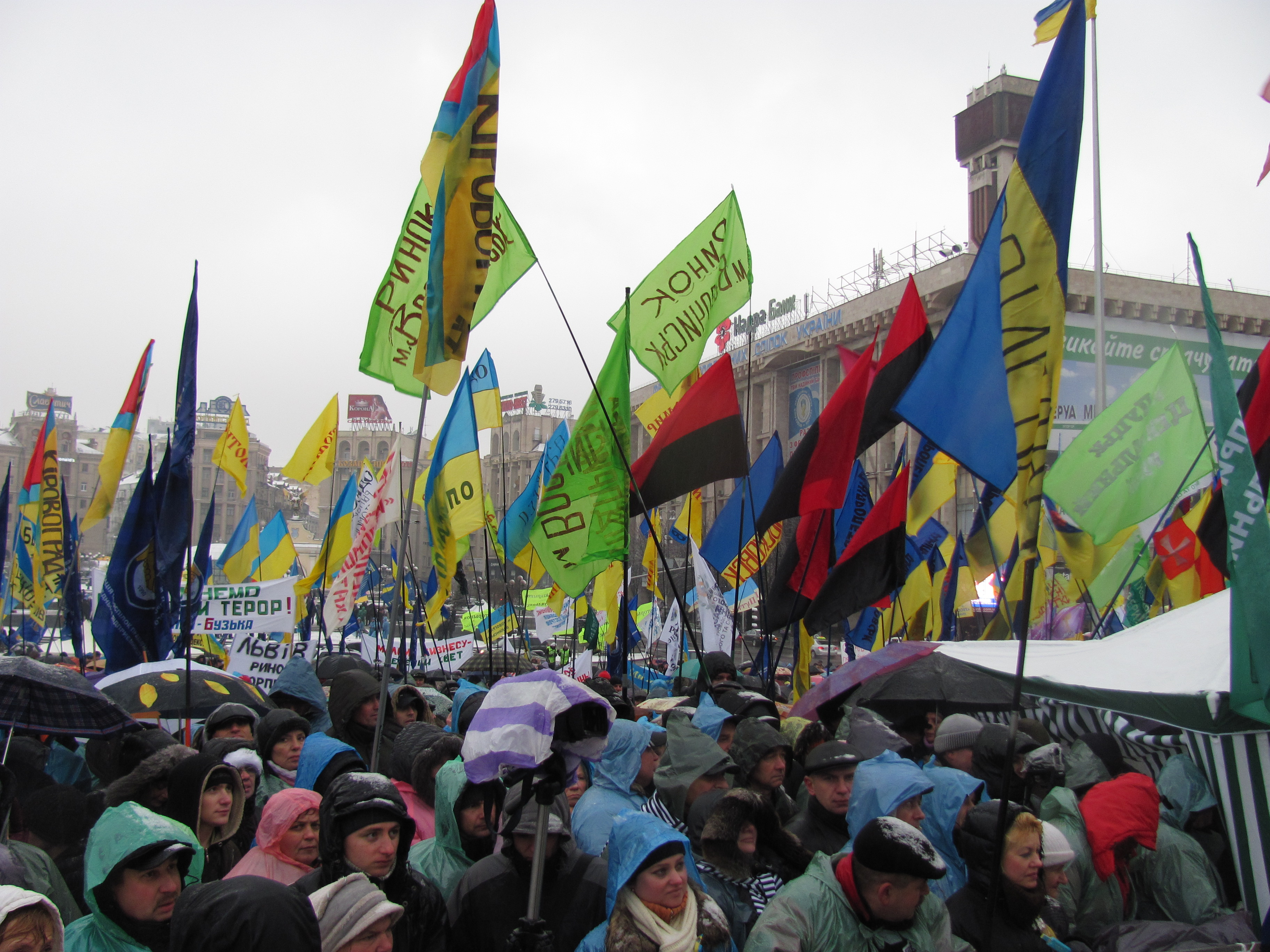 Protest in Ukraine, 2010.